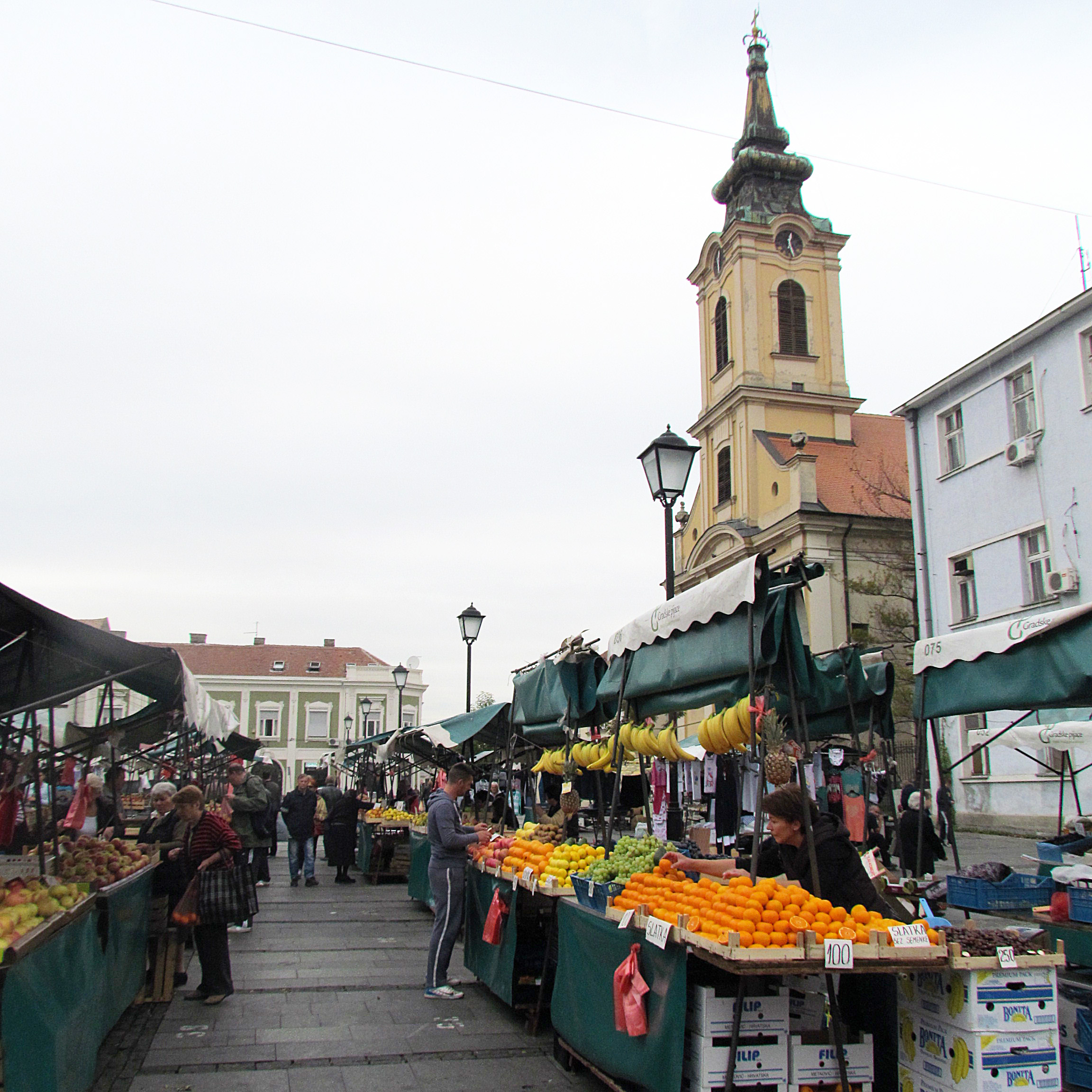 Farmers' market in Zemun, Serbia